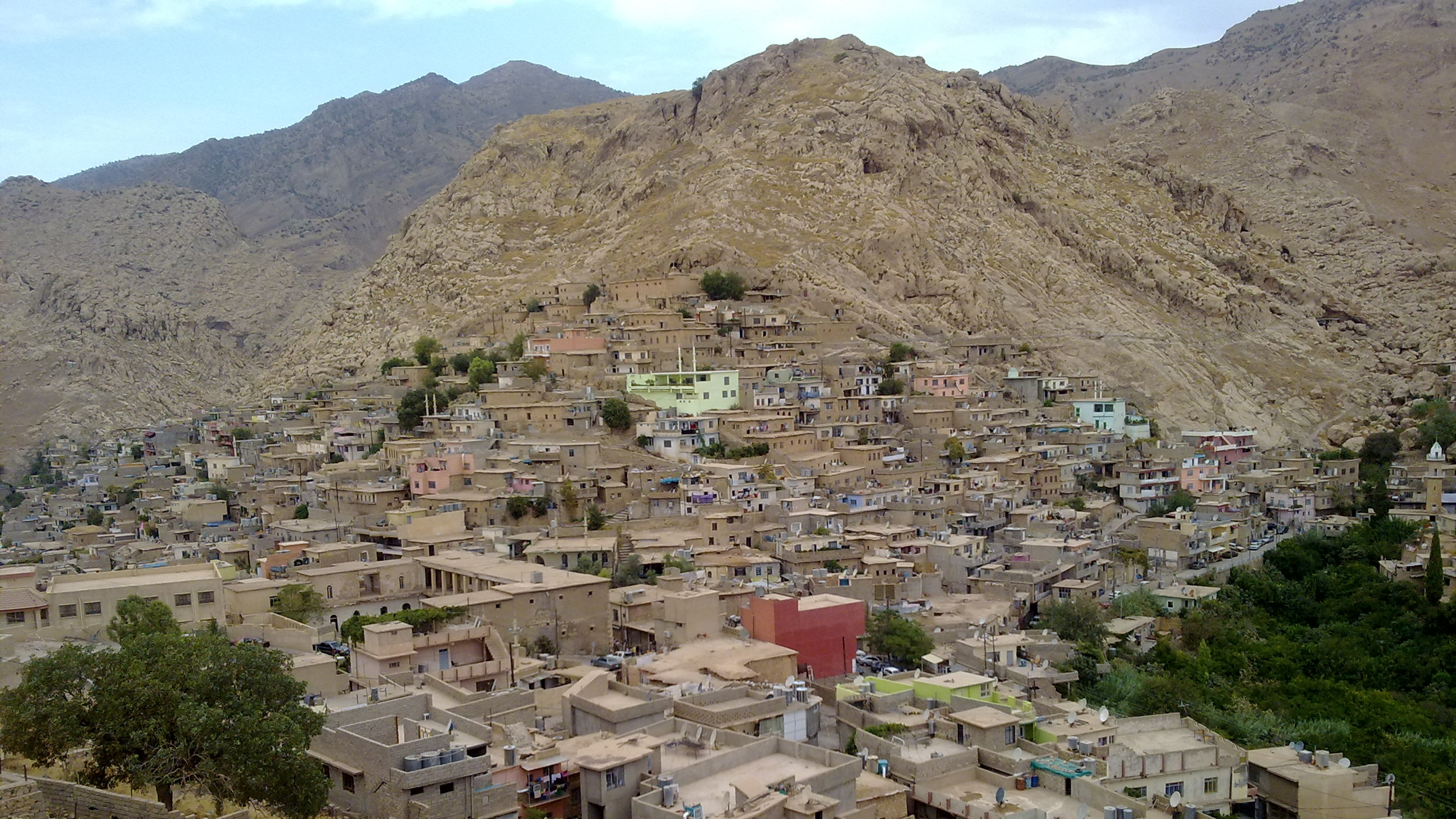 Akre city, a small Kurdish city in Dohuk Governorate]